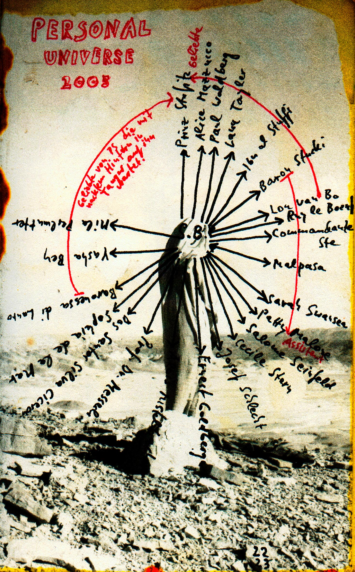 Heteronymous "Personal Universe", 2005